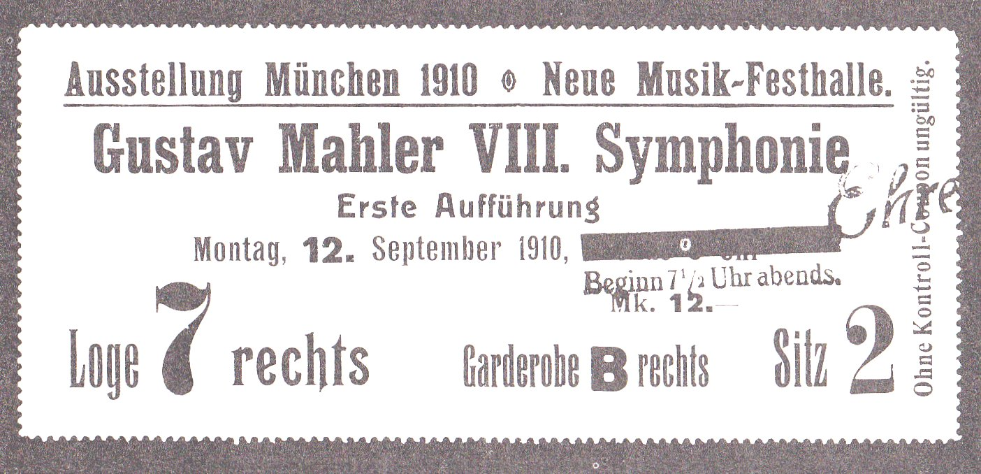 A ticket issued for the world premiere of Symphony No. 8 by Gustav Mahler, 12 September 1910 at Neue Musik-Festhalle, Munich